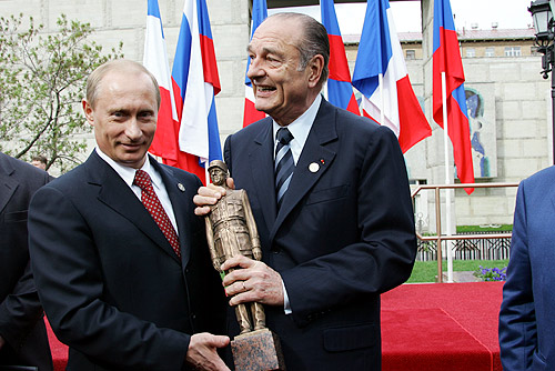 DE GAULLE SQUARE, MOSCOW. With French President Jacques Chirac at the opening ceremony of a monument to General De Gaulle. French President was presented the small copy of the monument.